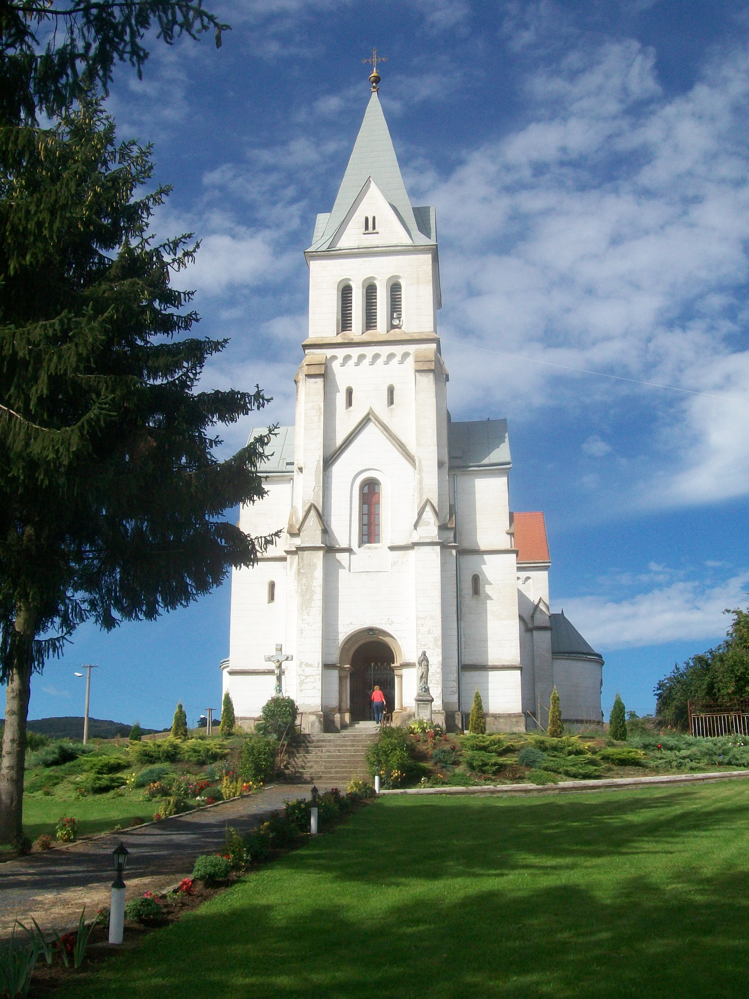 Neo-Romanesque church of St. Michael from 1868 in the village Šurice